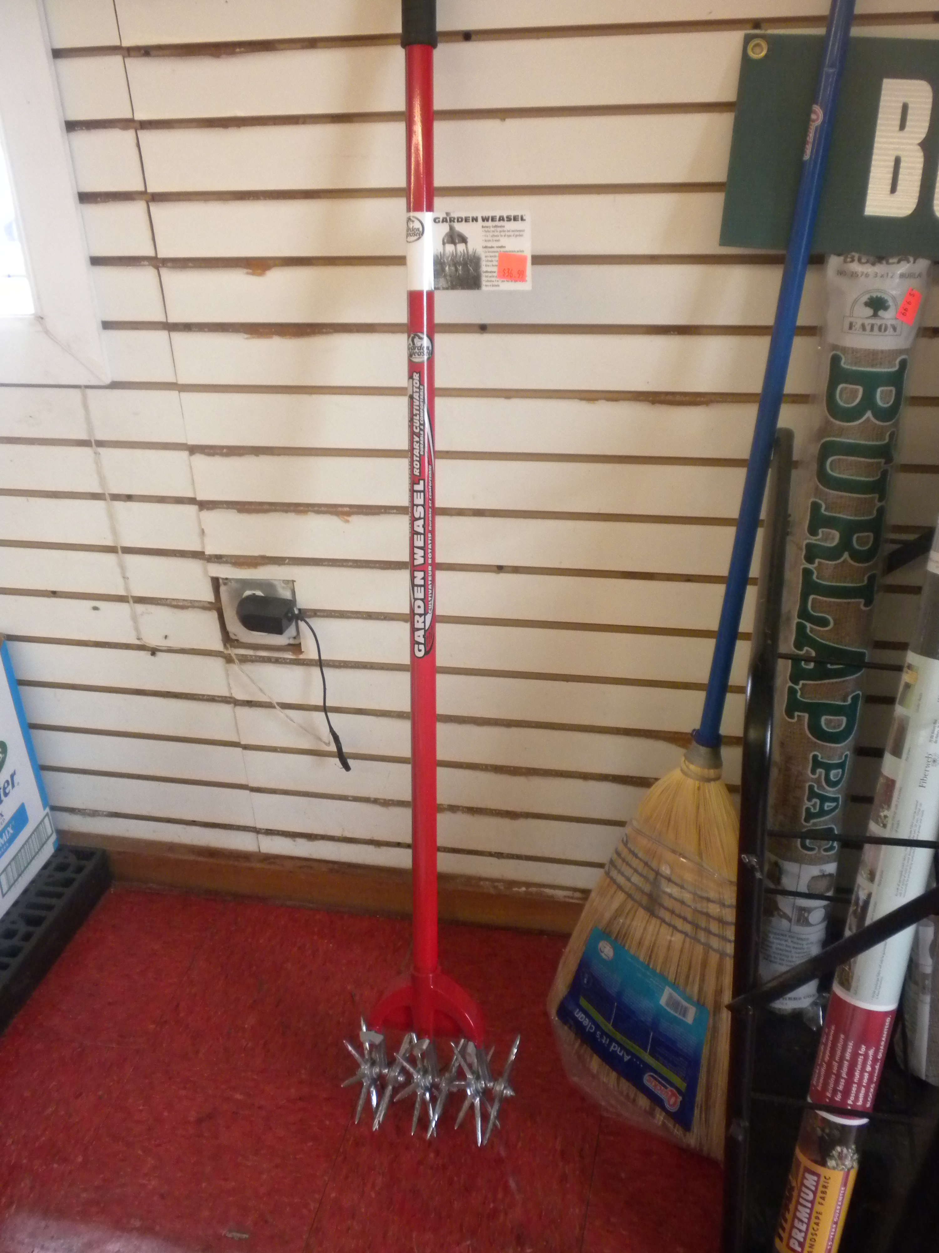 Garden Weasel